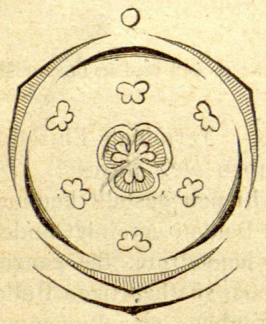 Floral diagram of Ornithogalum umbellatum by August W. Eichler